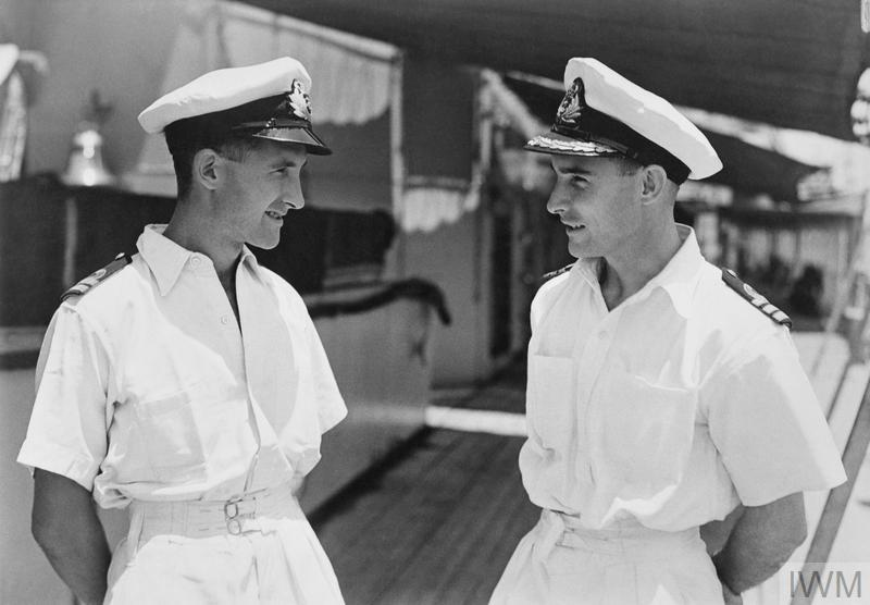 The two Commanding Officers talk over their patrols. Lieut R H Brunner, RN, Poulton-Le-Fylde, Lancs (left) and Commander A R Hezlet, DSO, DSC, RN, of Aghadowey, Co Londonderry.